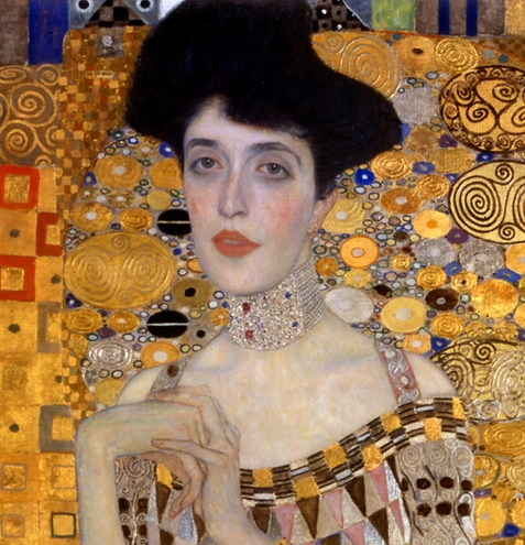 Detail of the face of Adele Bloch-Bauer from Portrait of Adele Bloch-Bauer I